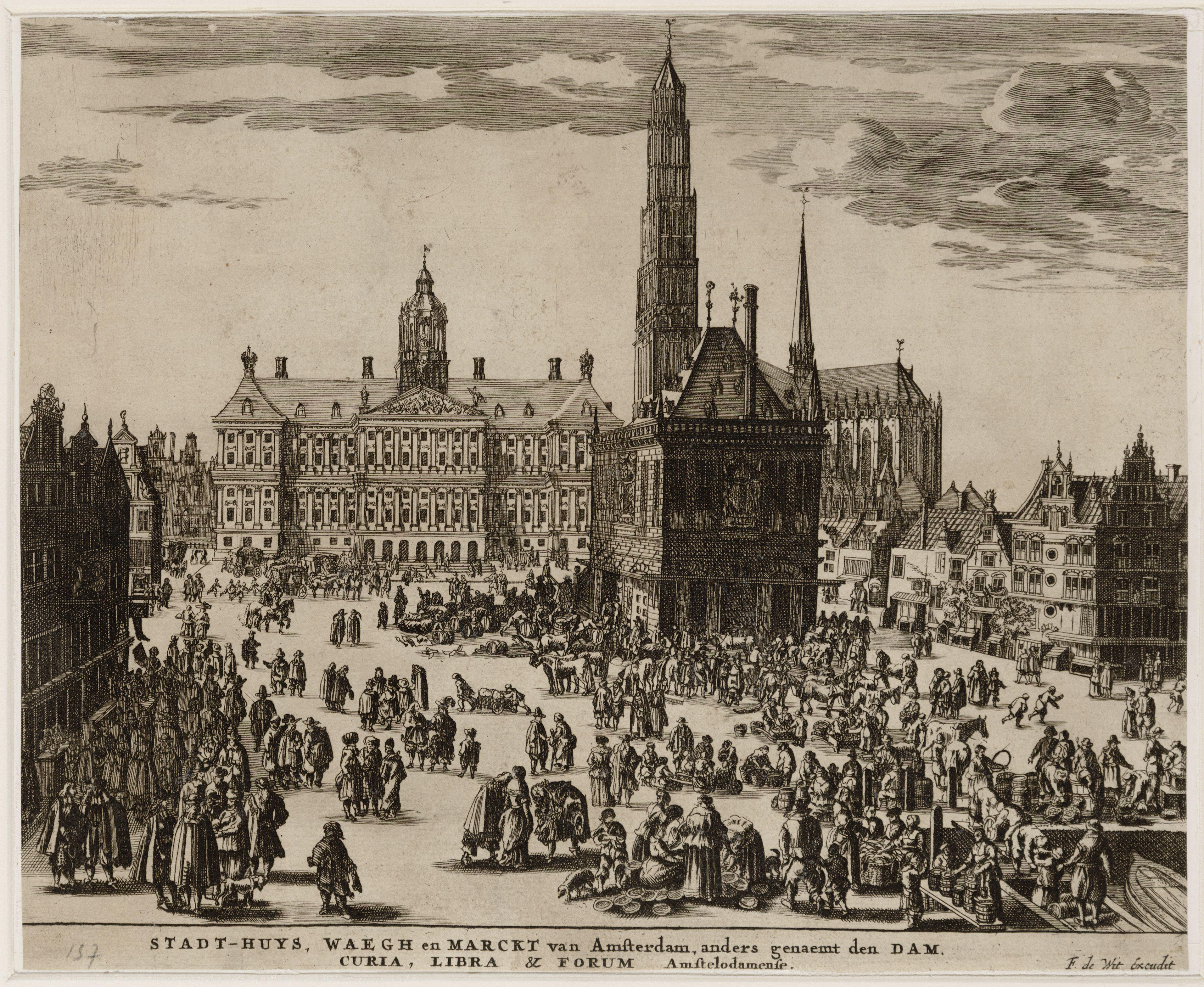 Dam. Etching. Dimensions and location unknown.